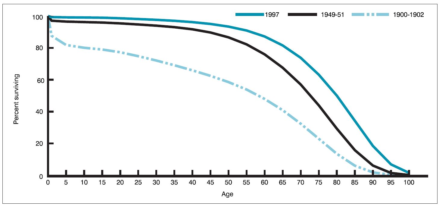 Graph of percent still alive by age in 1900, 1950, and 1997 from the CDC.